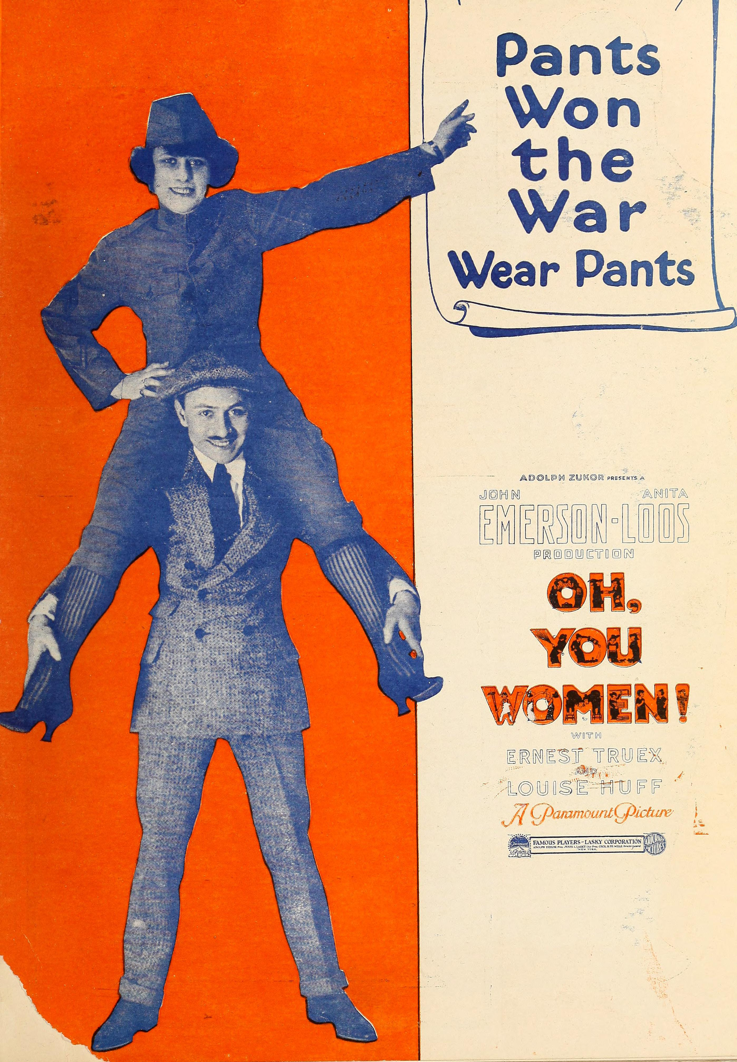 Ad for the American film Oh, You Women! (1919) with Ernest Truex and Louise Huff, color insert after page 454 of the April 26, 1919 Moving Picture World.